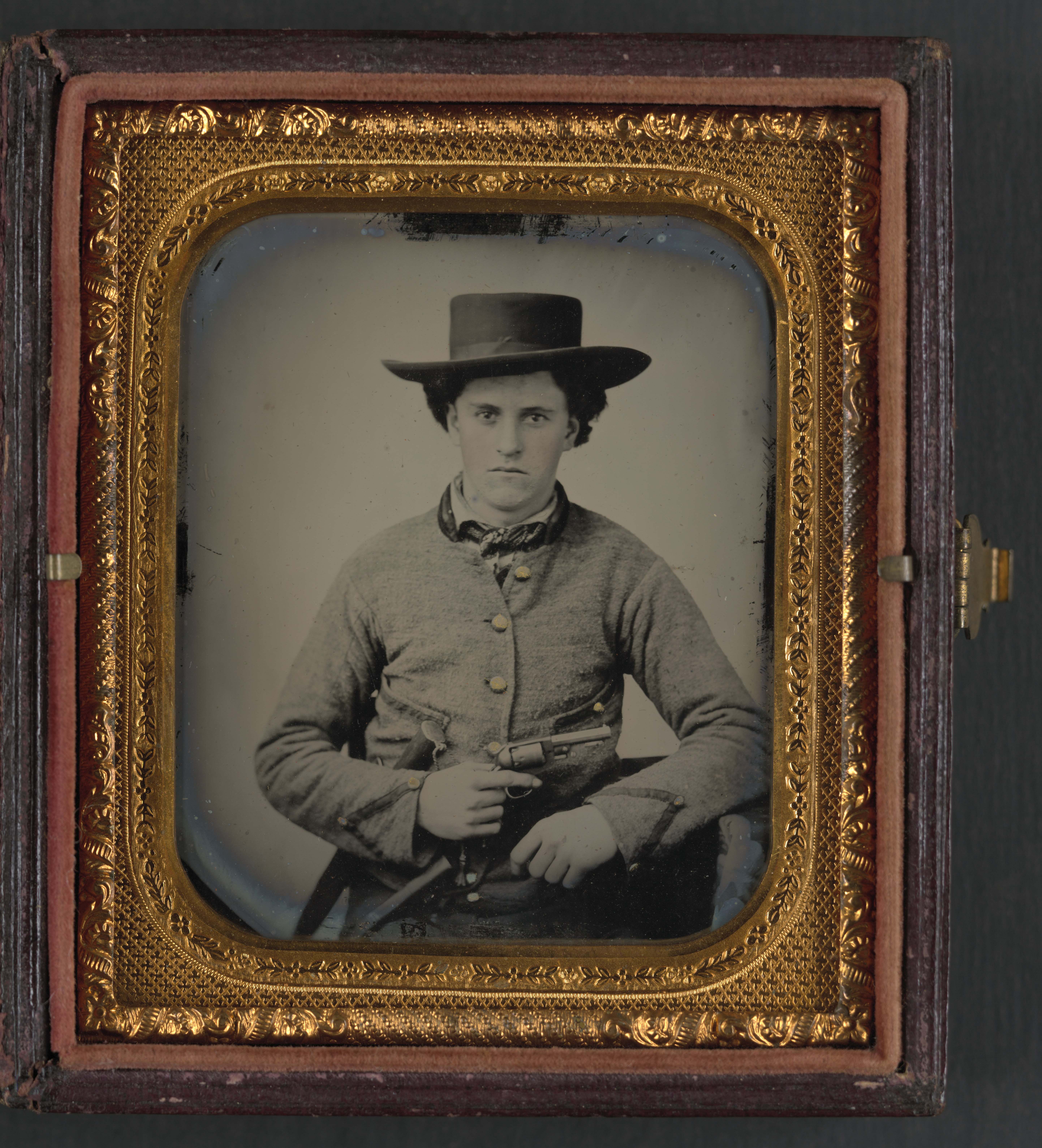 Title: Private Charles H. Ruff of Co. G, F, and S, 2nd Texas Infantry Regiment in uniform Abstract/medium: 1 photograph : hand-colored ambrotype ; plate 81 x 70 mm (sixth plate format), case 93 x 82 mm.